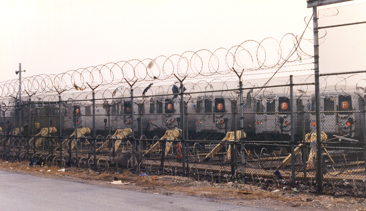 Fence at Coney Island Complex.In order to keep graffiti “artists” away, the MTA implemented extensive security sytems around their yards. They put up dual fences four meters high and about 10 feet apart that were topped with razor wire. And men with dogs started to patrol this 10-foot space.